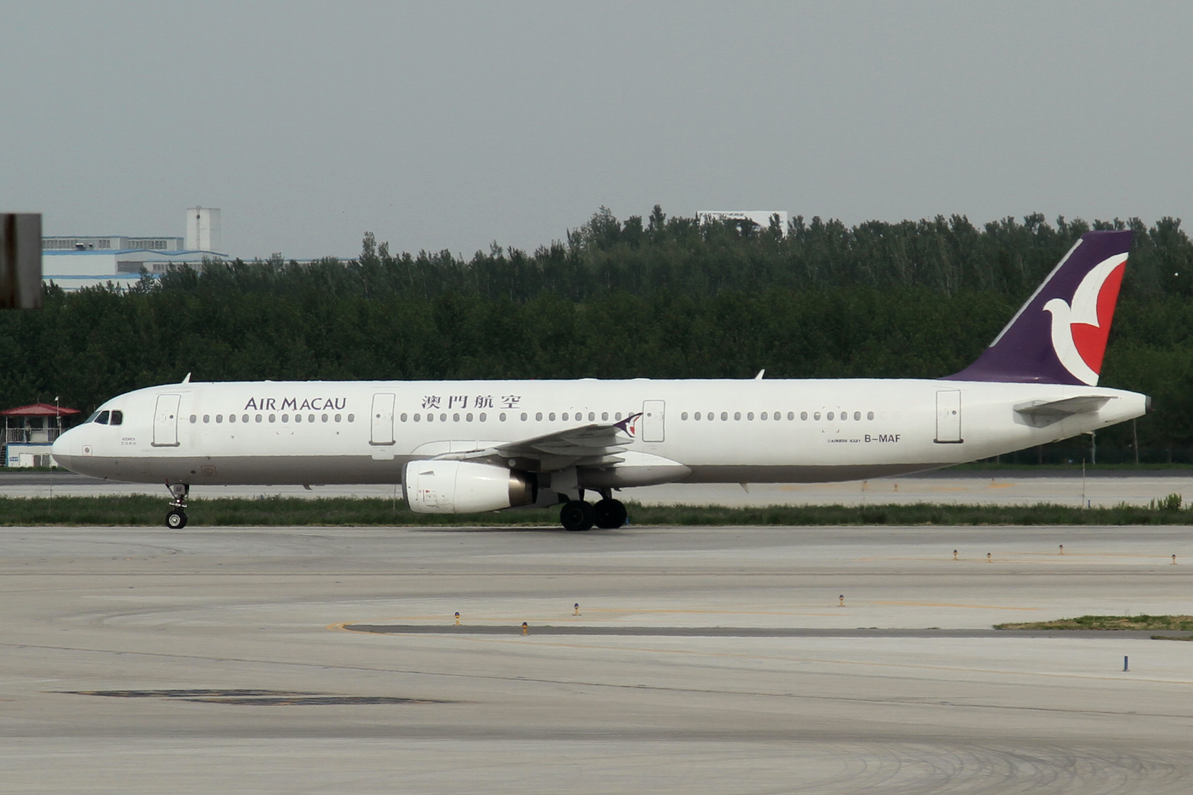 Beijing Capital International Airport, Airbus A321-131, c/n:620, Air Macau